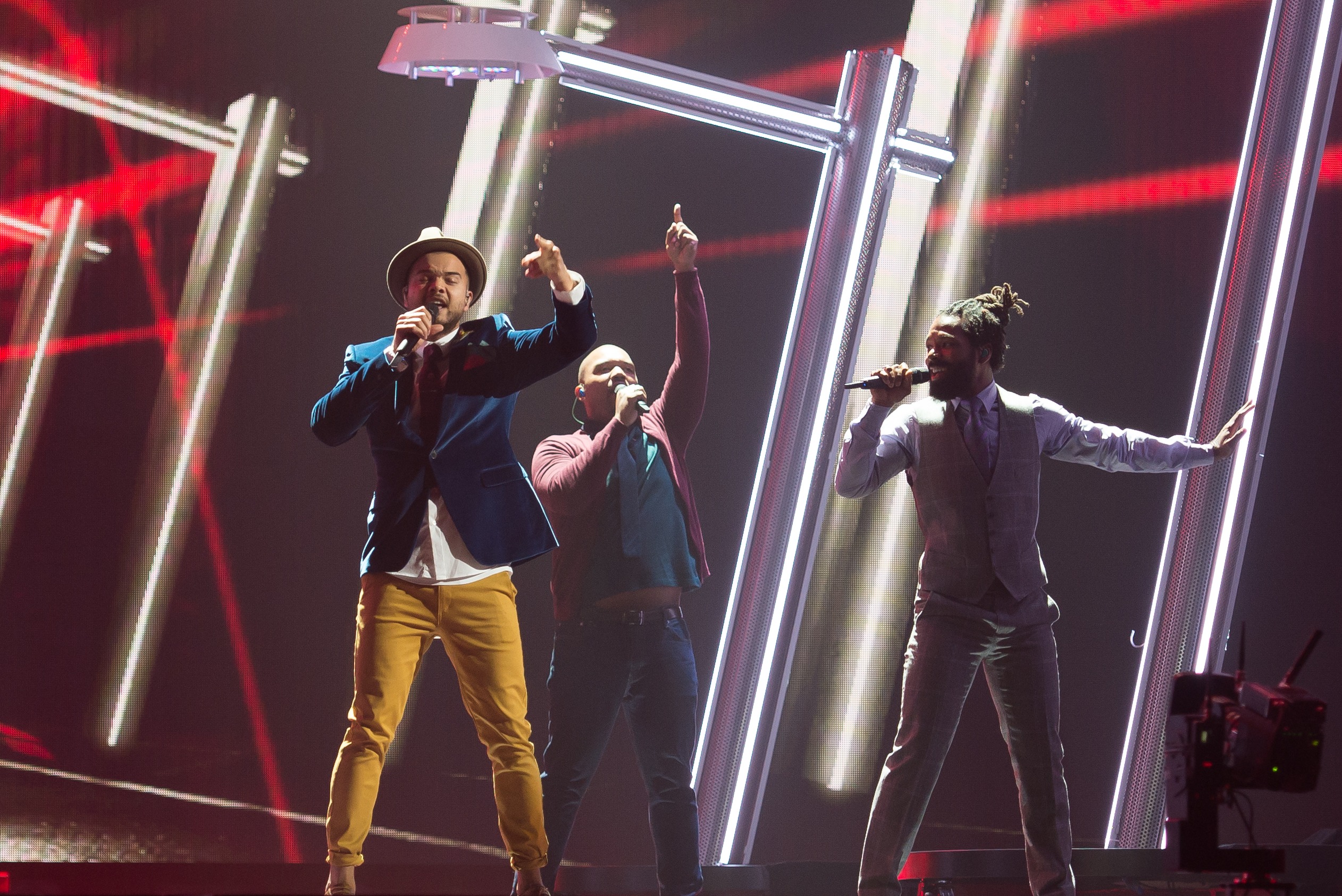 Eurovision Song Contest Vienna 2015: Guy Sebastian